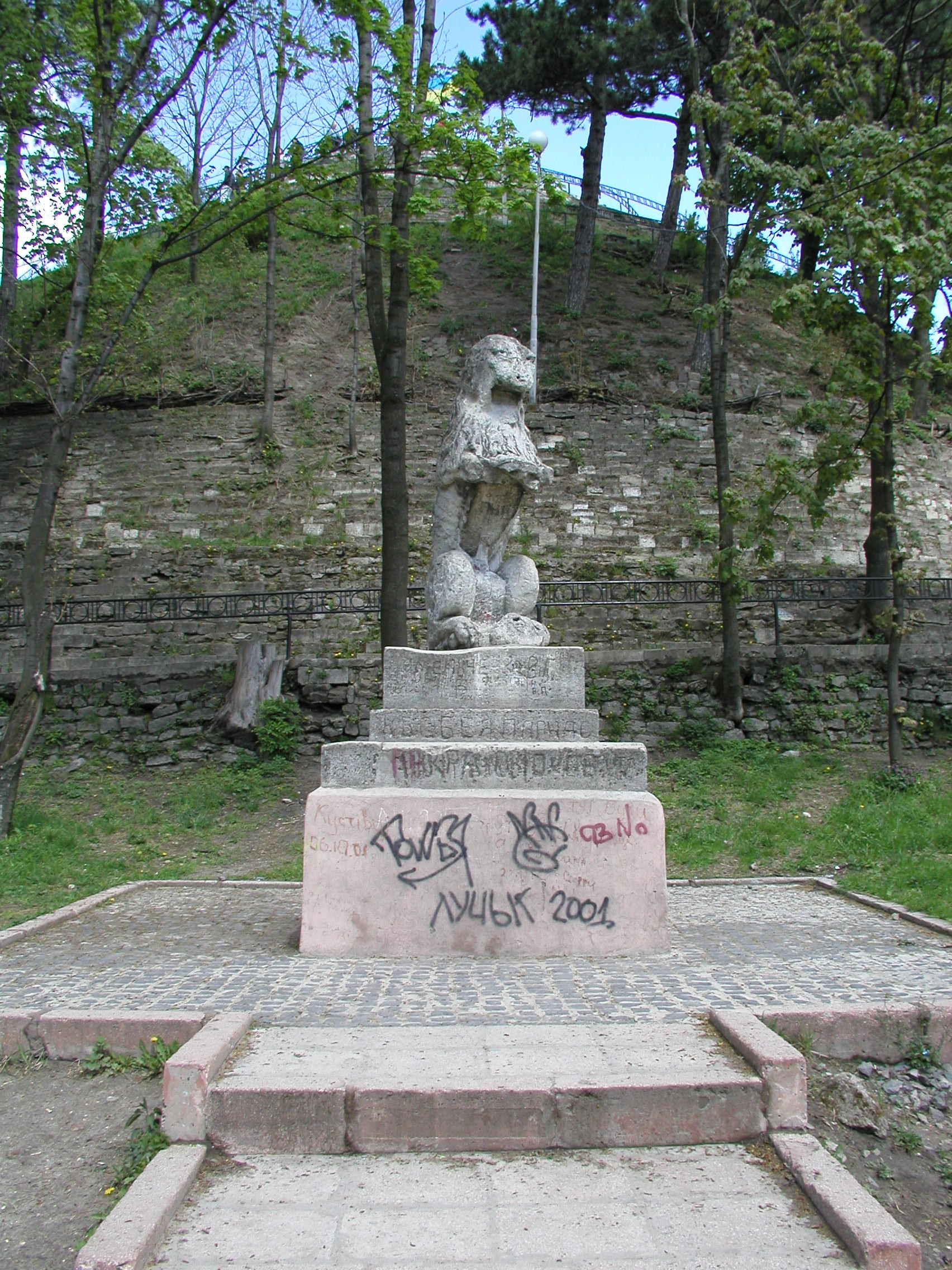 Sculpture of Lion, created by Andrzej Bremer in 1591 (High castle, Lviv)